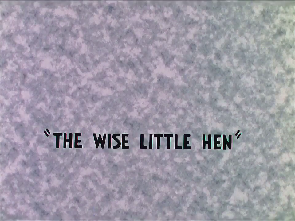 Title card from Disney short The Wise Little Hen (1934)